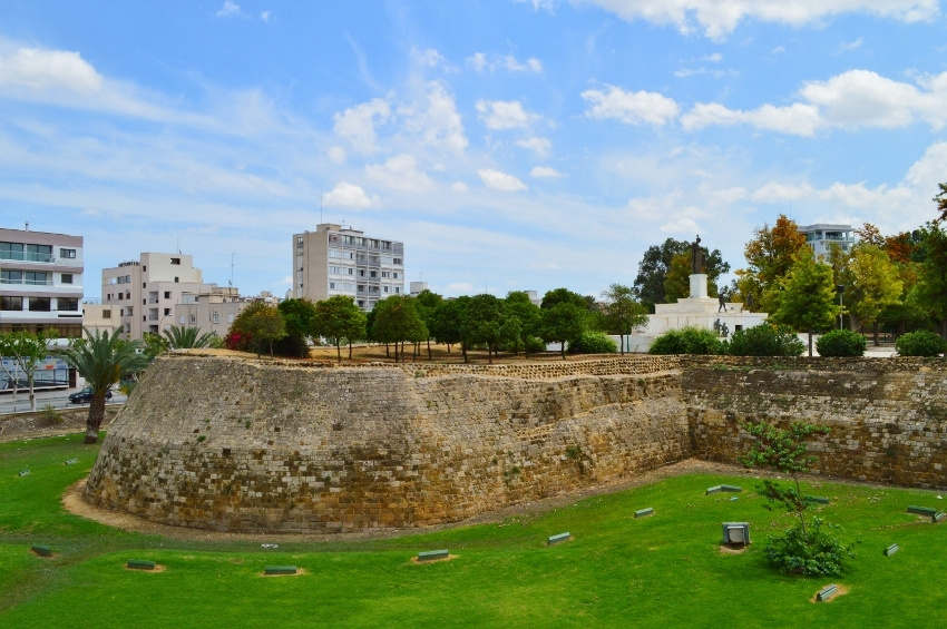 World known Venetian Walls of Nicosia Republic of Cyprus